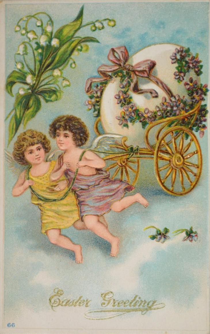 Cherubs with egg on chariot, Easter Greeting, c. 1888